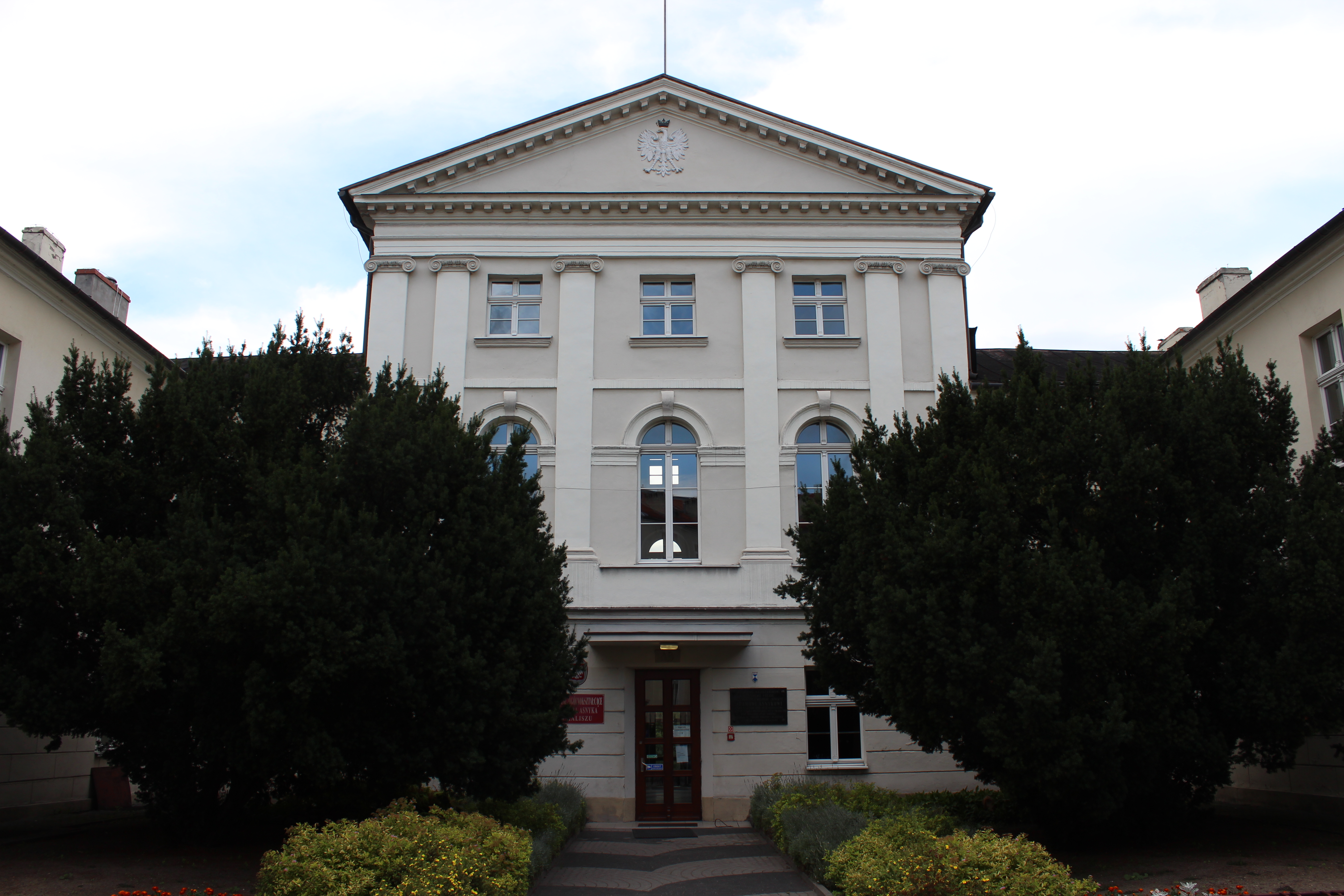 Kalisz